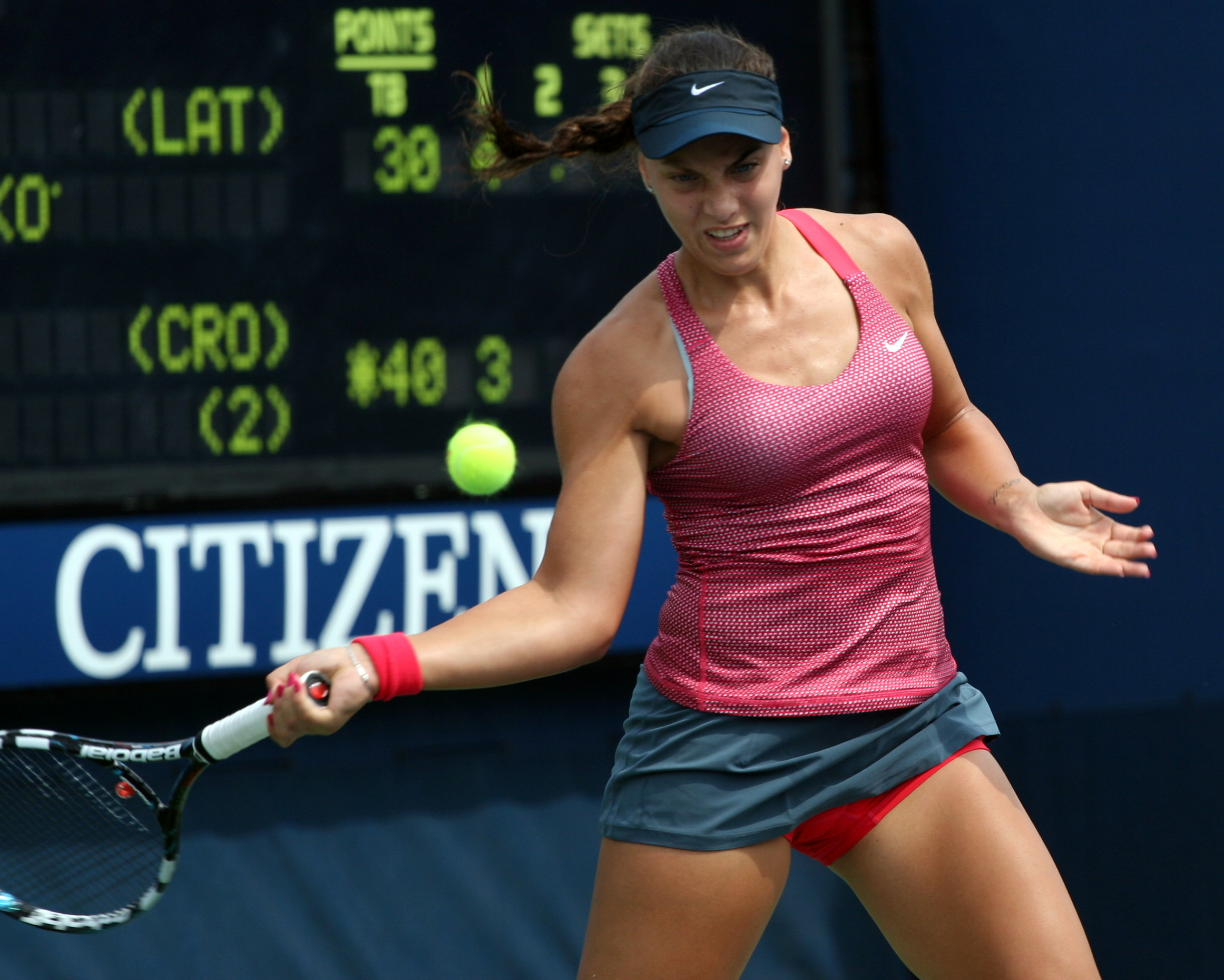 Ana Konjuh at the 2013 US Open